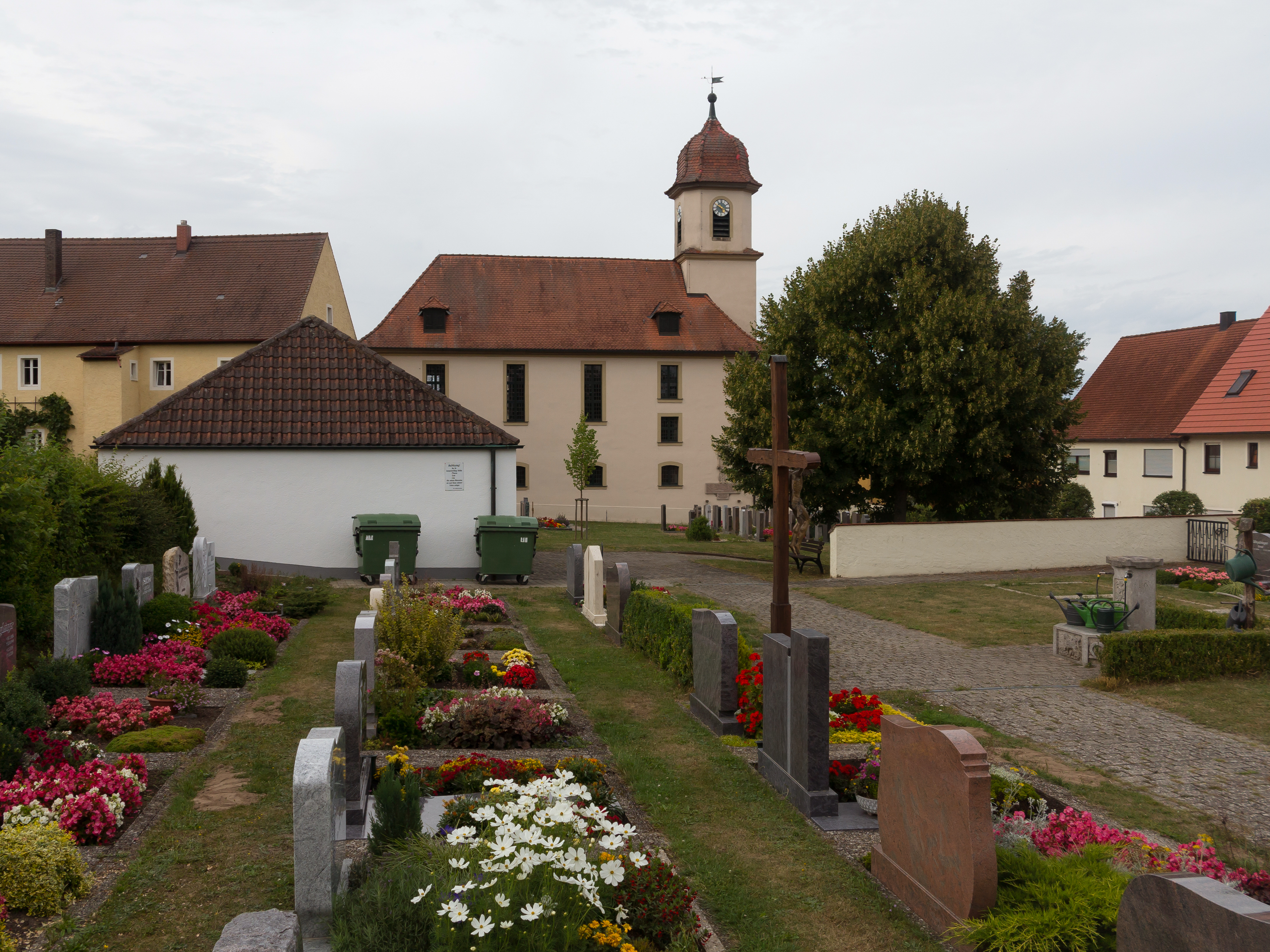 Thann, church: evangelisch-lutherische Pfarrkirche Sankt PeterThis is a photograph of an architectural monument.